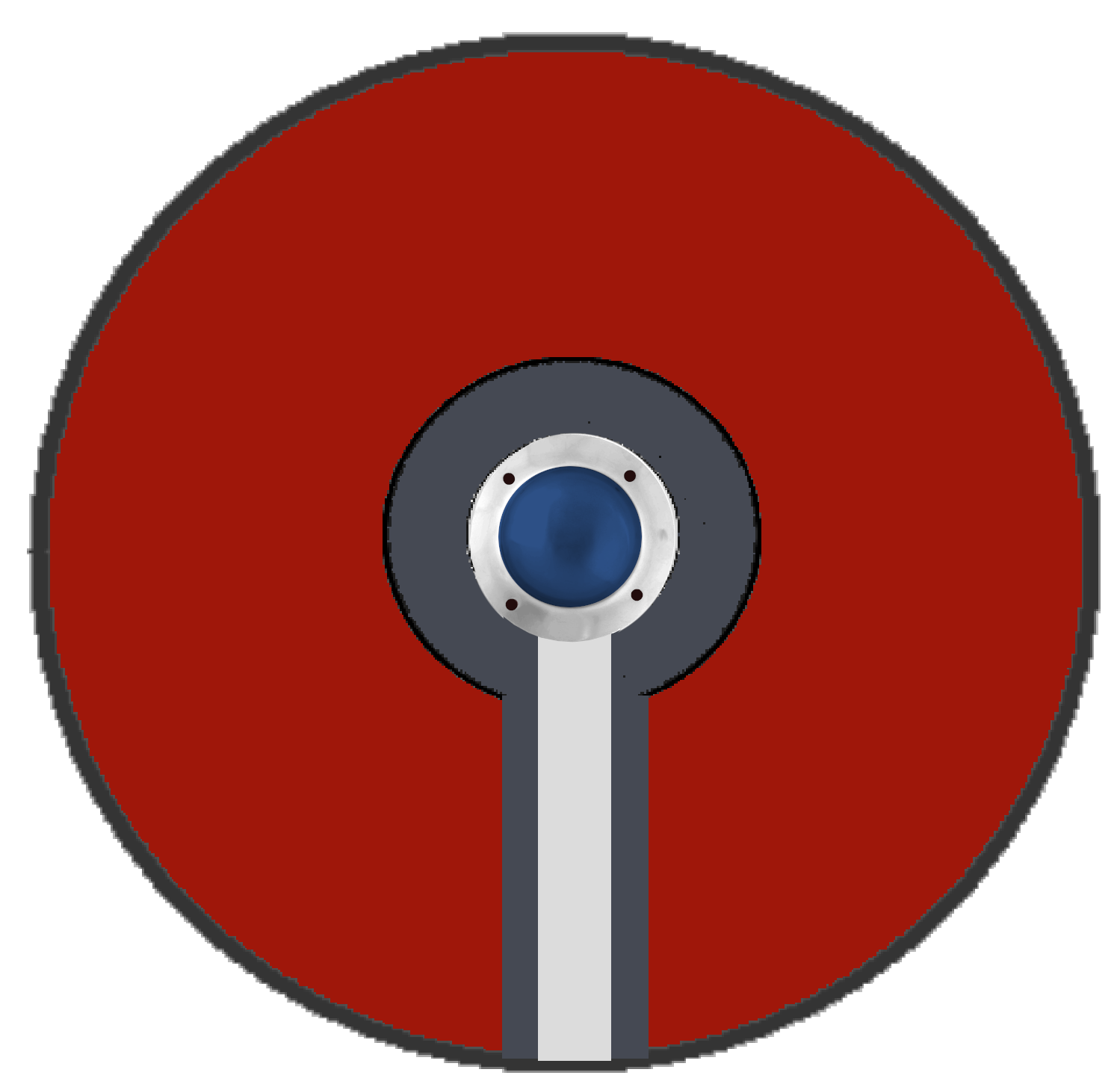 Shield pattern o.t. Equites constantes Valentinianenses seniores, listed as the last of the vexillationes palatinae in the Magister Equitum's cavalry roster.